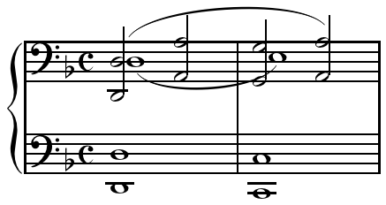 Claude Debussy Pelléas et Melisande prelude opening. Created by Hyacinth using Sibelius and Paint.